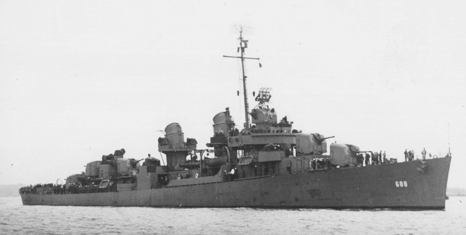 The U.S. Navy destroyer USS Remey (DD-688) underway, circa in 1944.